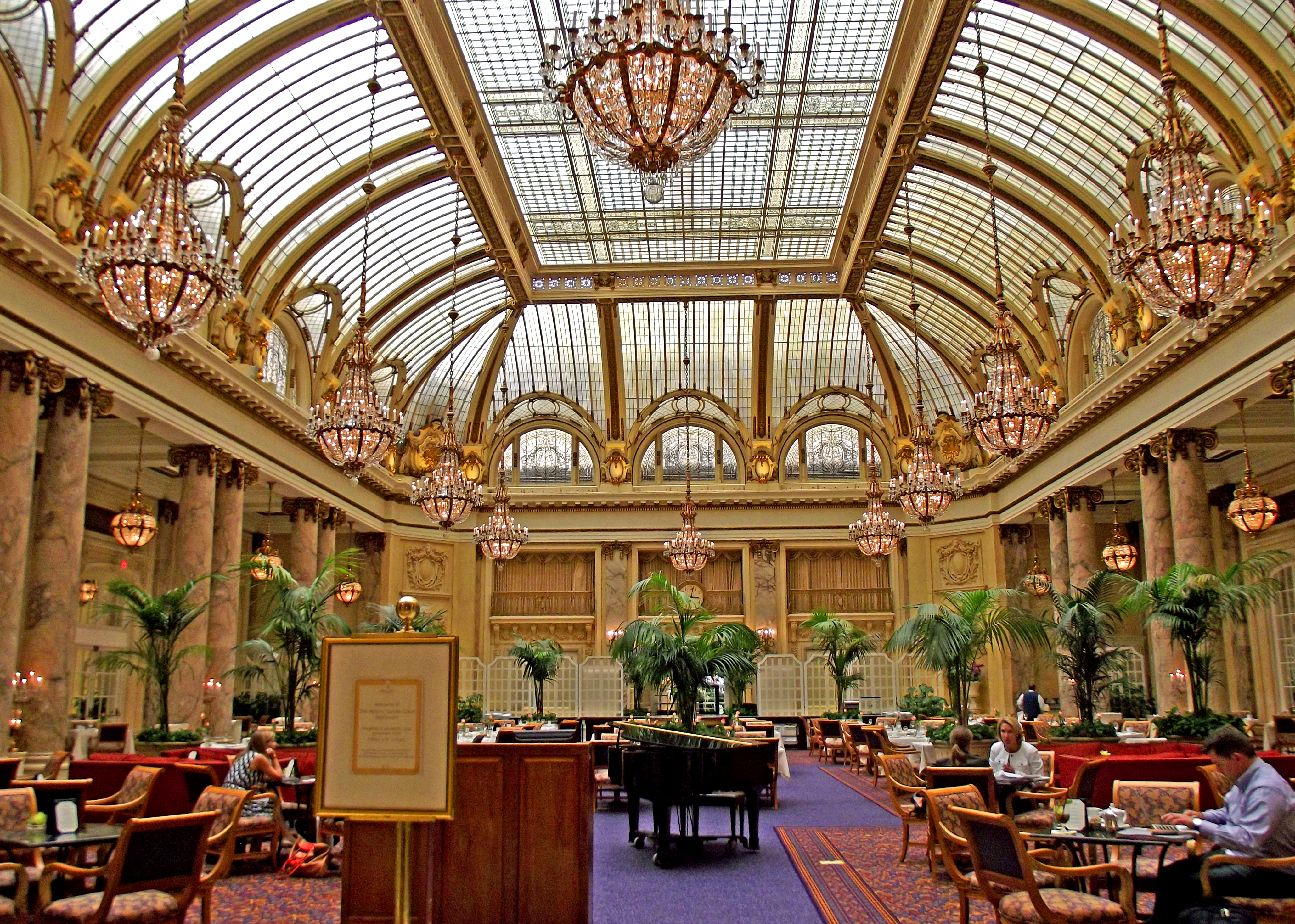 Palace Hotel, Garden Court Restaurant in San Francisco California